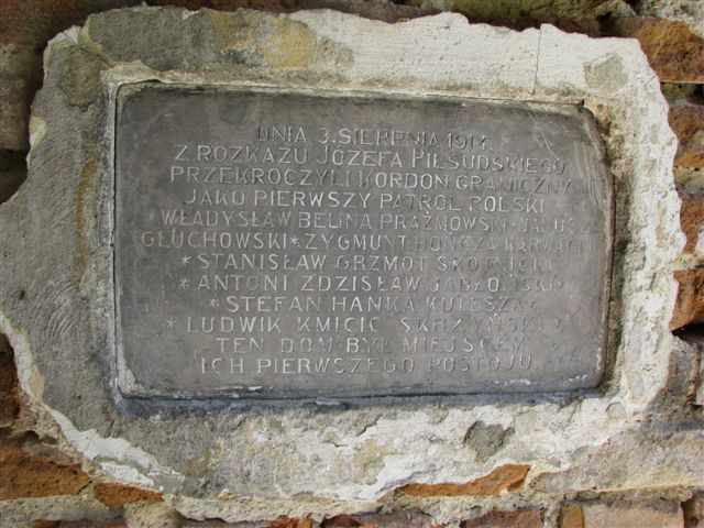 Gąsiorowski family's Manor house